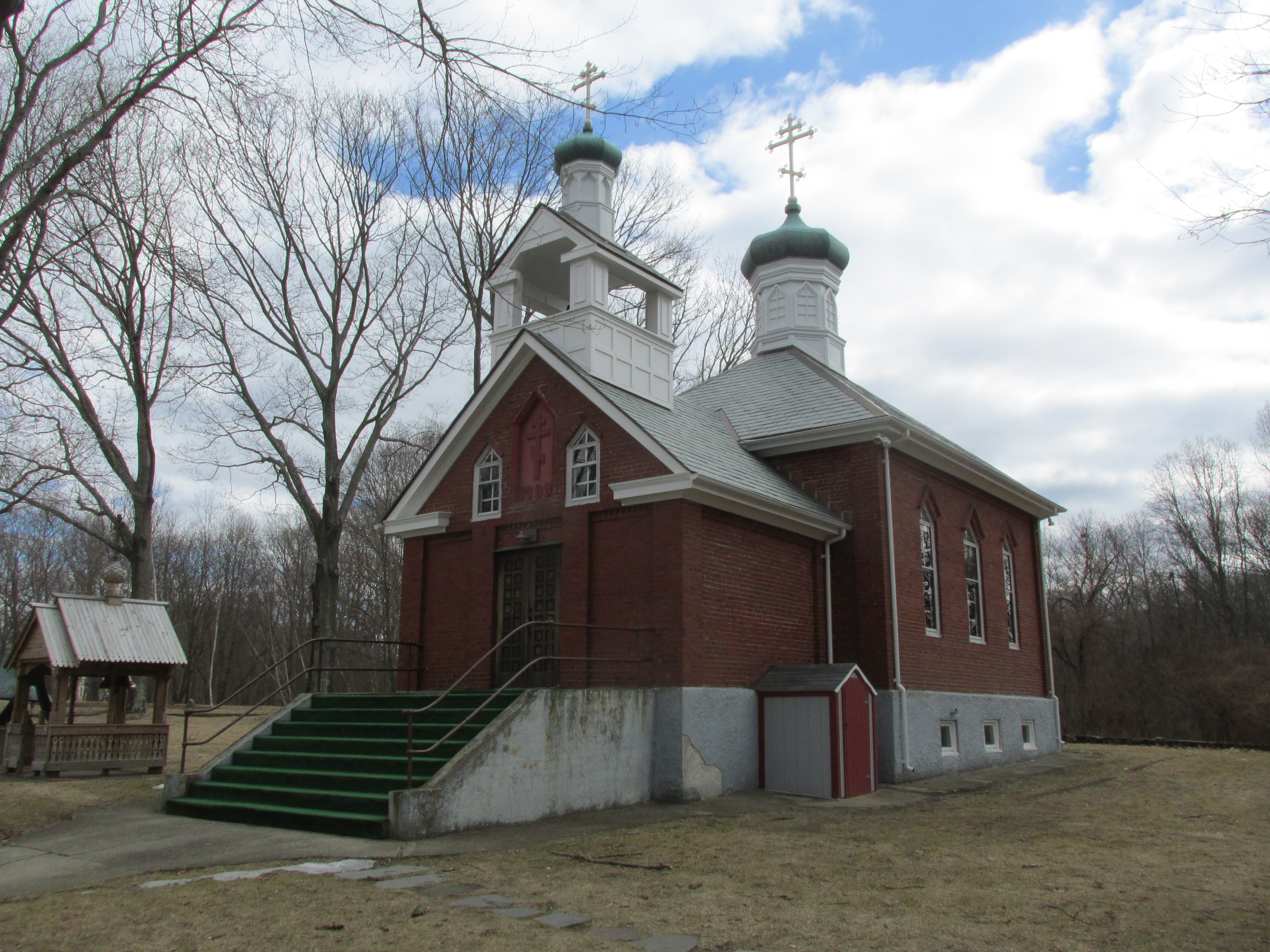 Dormition of the Virgin Mary Parish, Cumberland Hill Rhode Island - 2014